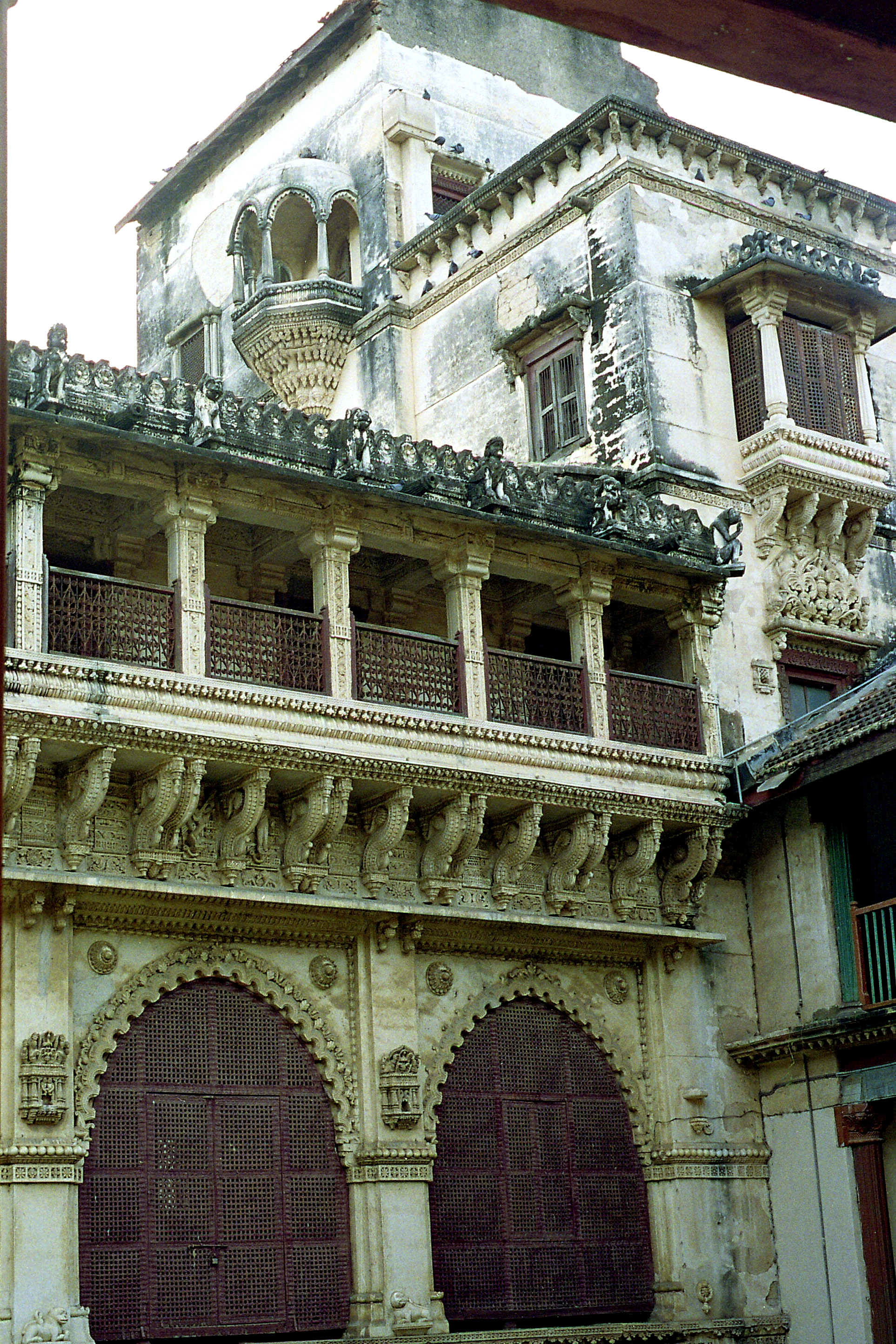 Naulakha Palace: zenana, Gondal, Gujarat, India